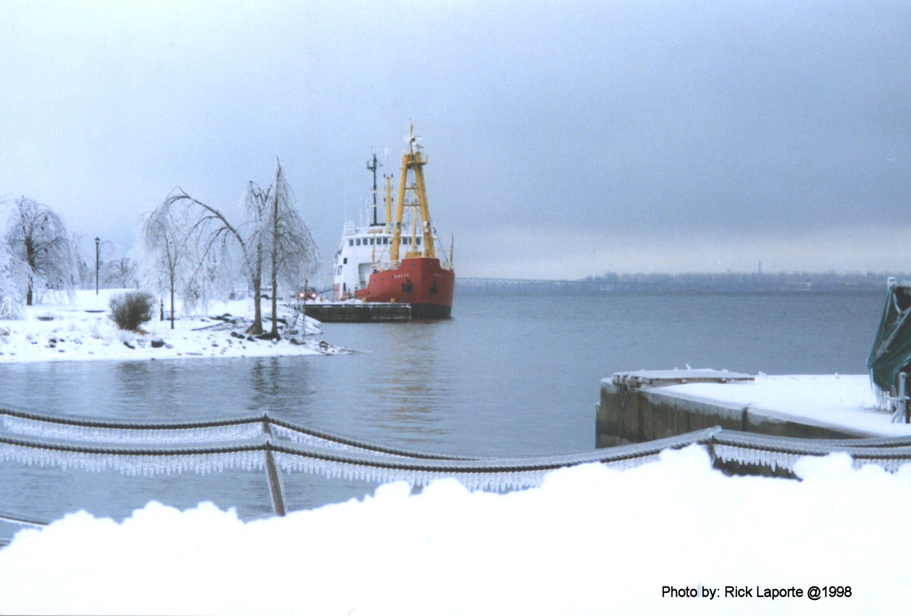 CCGS Simcoe moored alongside Prescott ON during the Great Ice Storm of 1998.